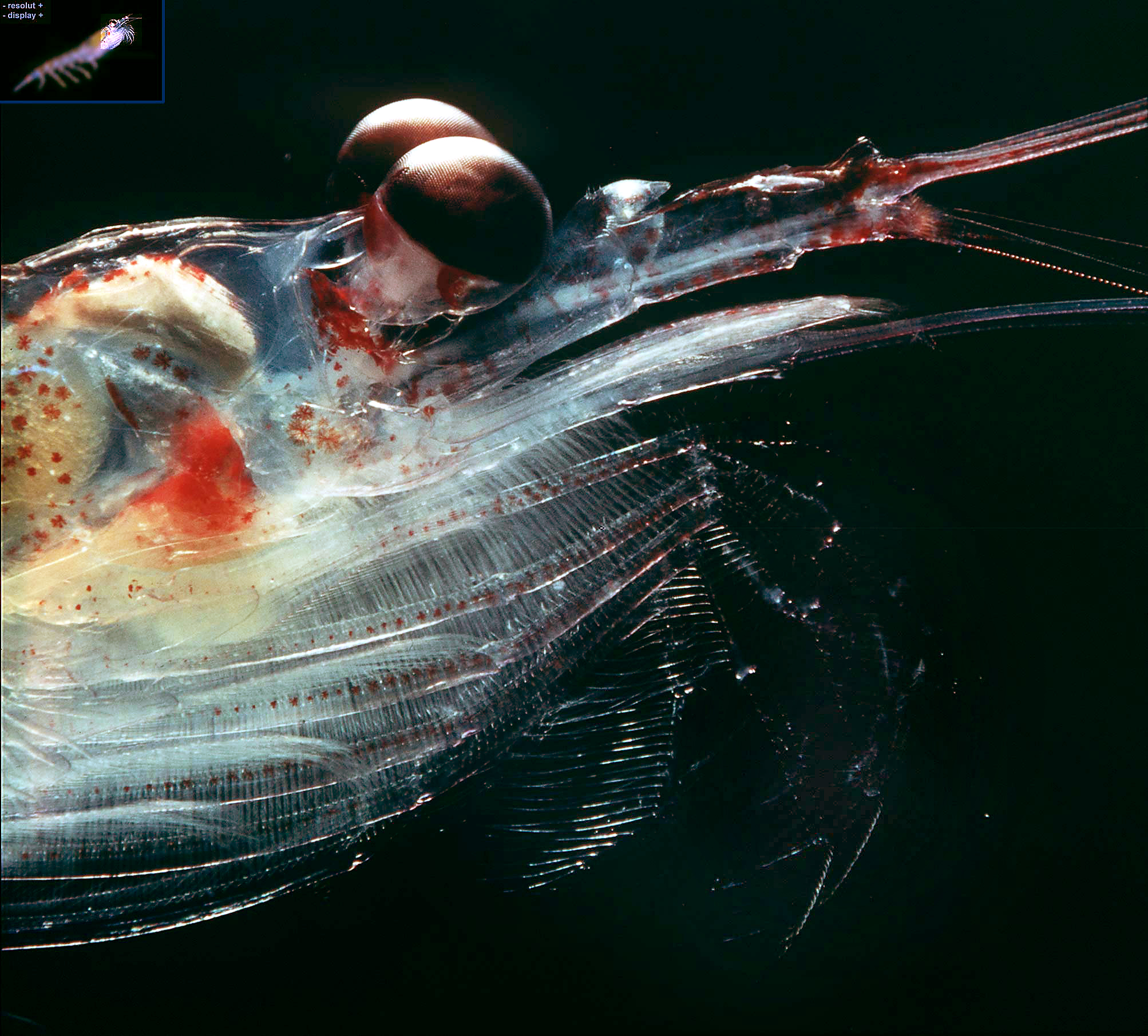 The head of Antarctic krill. Observe the light organ at the eyestalk and the nerves visible in the antennae, the gastric mill, the filtering net at the thoracopods and the rakes at the tips of the thoracopods.